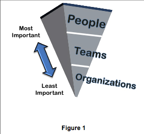 This idea of culture change puts people at the top the inverted pyramid saying that infinite potential is within the people.